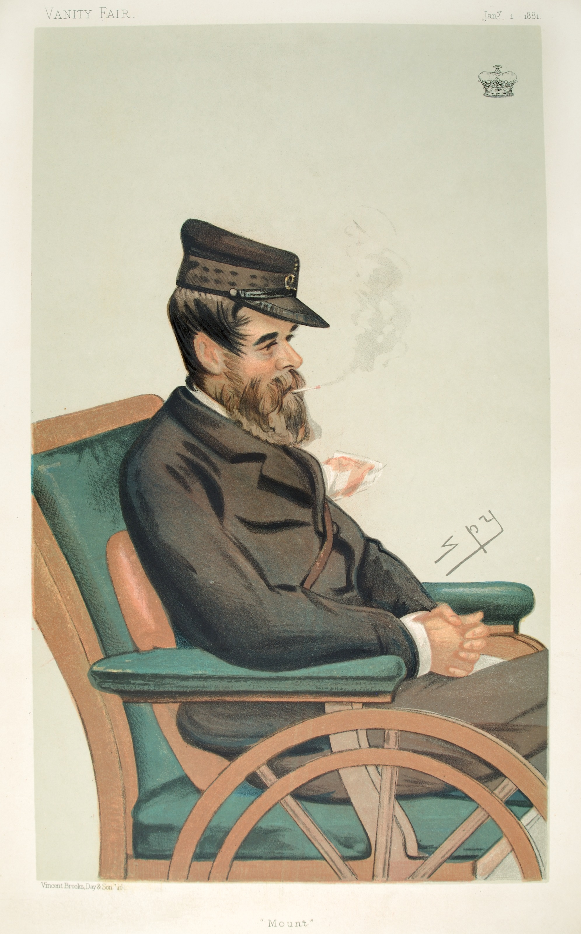 Statesmen No.349: Caricature of The Marquis Conyngham. Caption reads: "Mount"